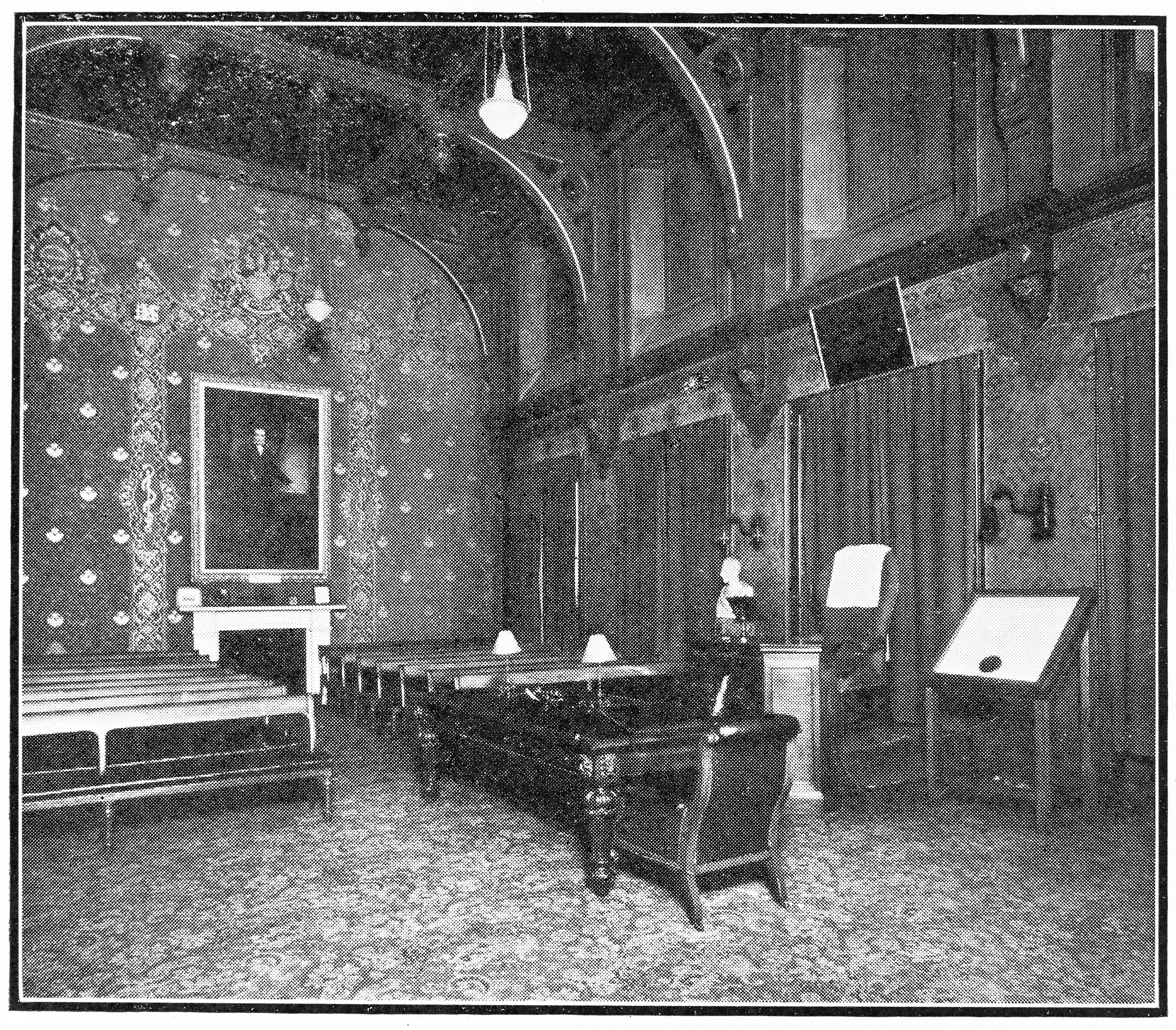 Royal Medical Society, Edinburgh. At 7, melbourne Place, the hall. General Collections Keywords: royal medical society